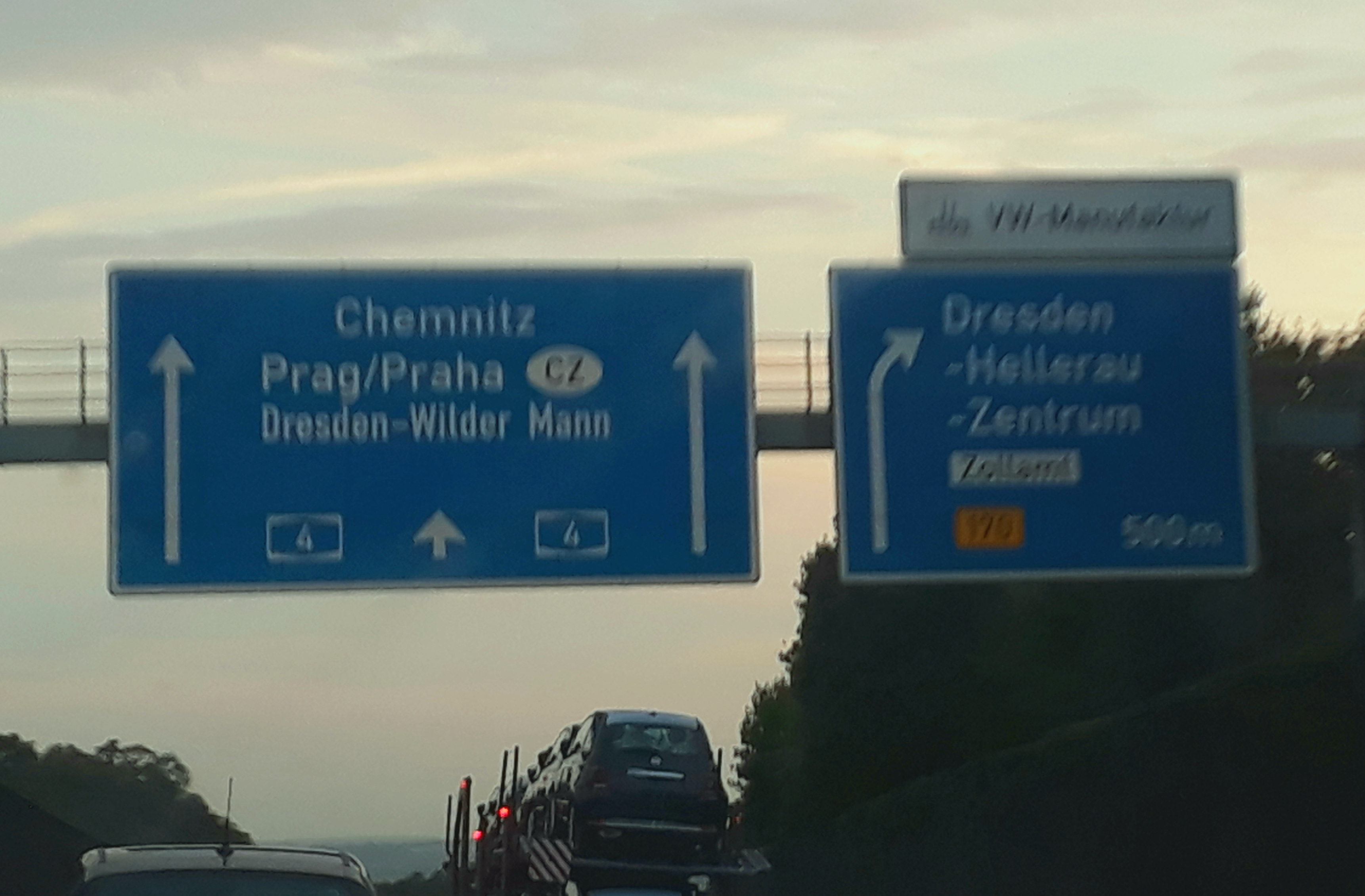 A picture of an autobahn sign on the A4 near Dresden, Saxony, Germany